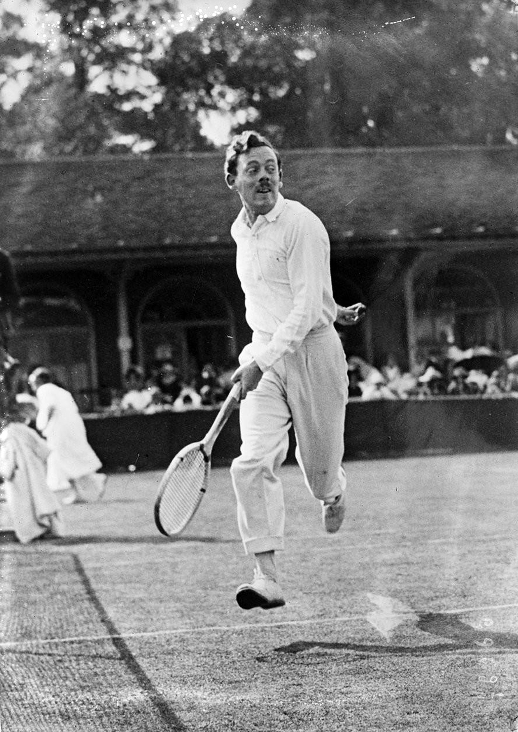 Swedish tennis player Carl-Erik von Braun at a tournament in Hurlingham, London.